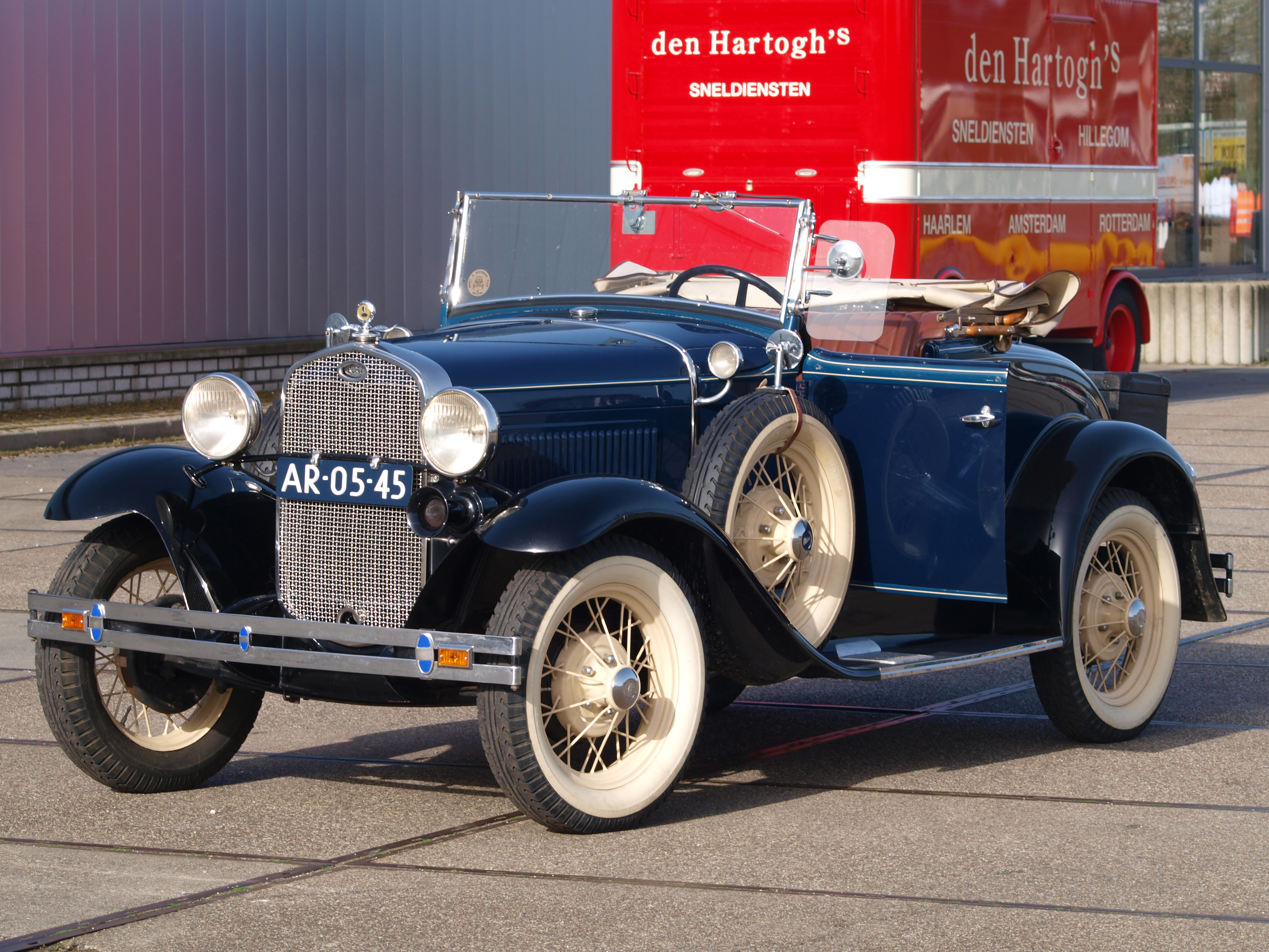 1931 Ford A Convertible